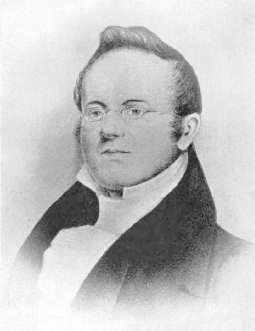 William Durkee Williamson (1779-07-31 – 1846-05-27), second Governor of the U.S. state of Maine